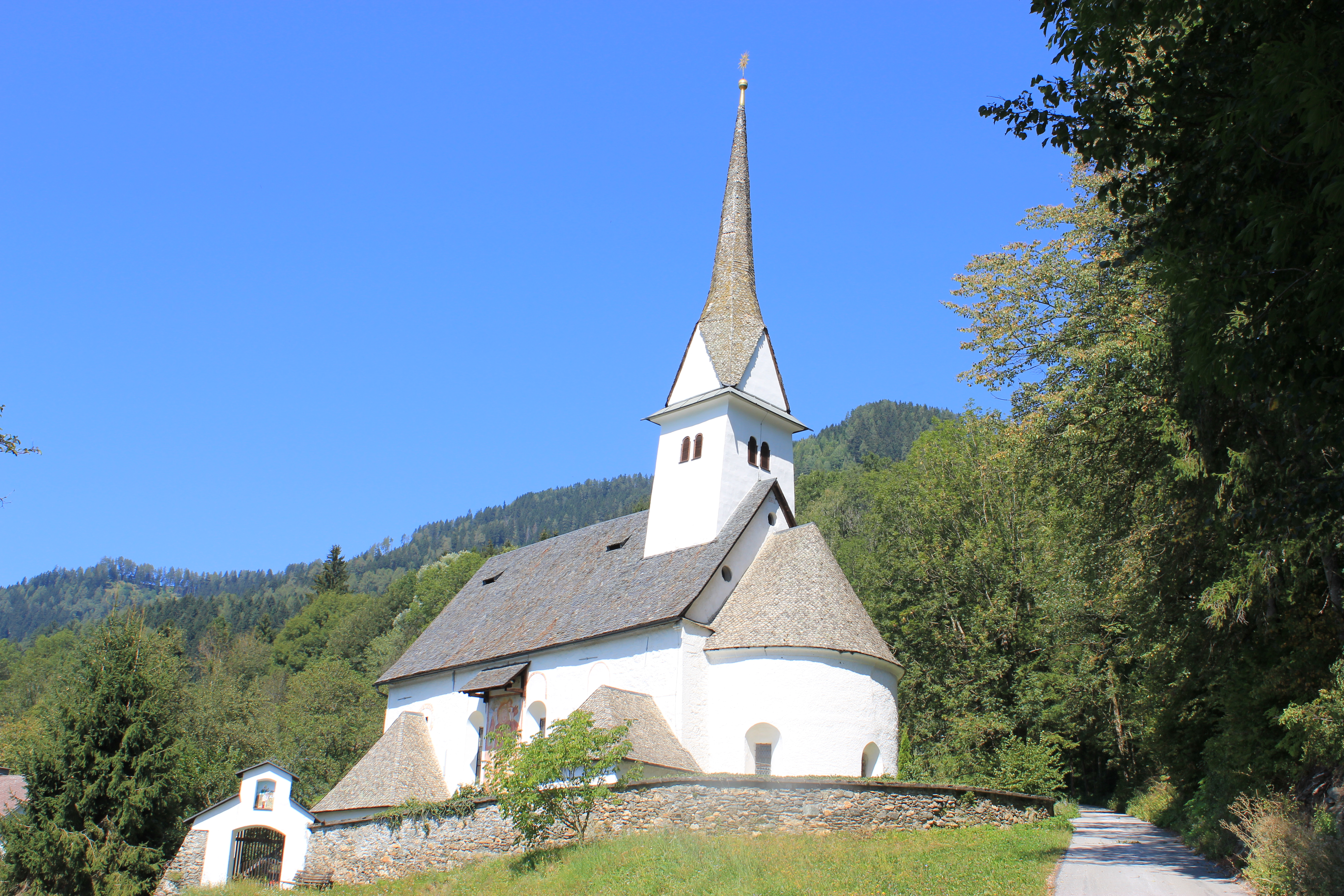 Church in Sankt Martin in the community of Völkermarkt